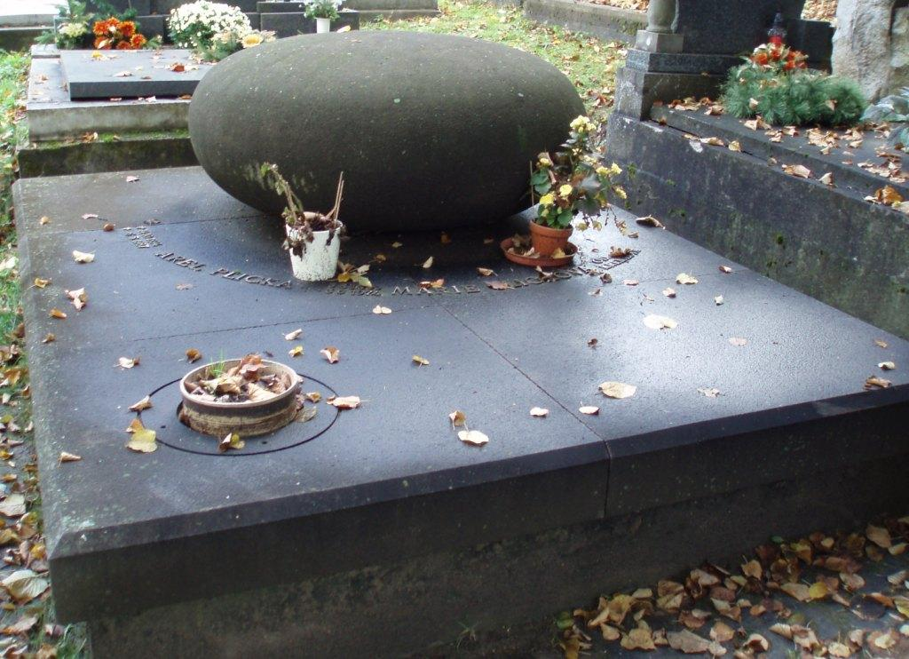 Grave Karol Plicka in Martin